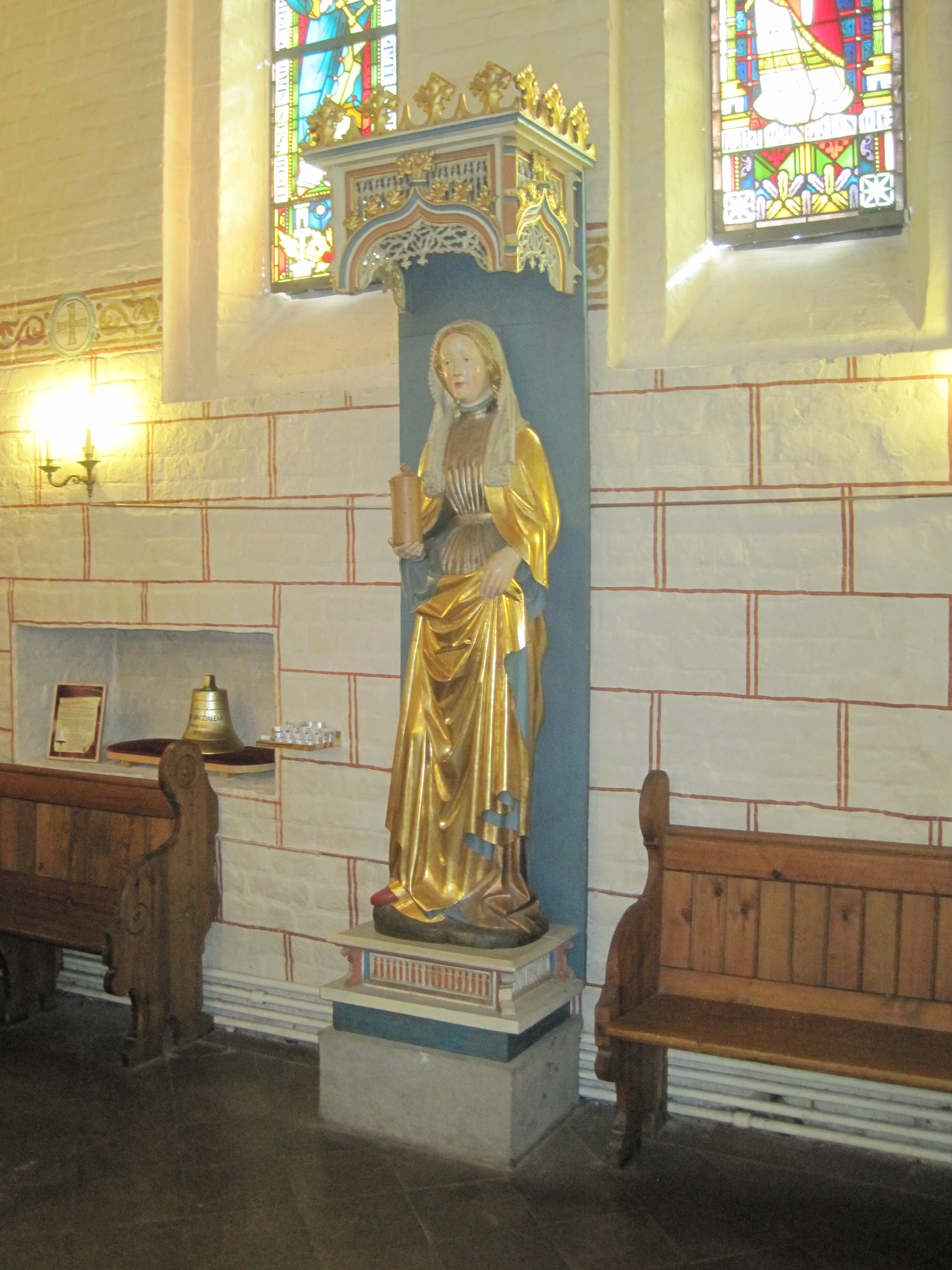 St. Maria Magdalena Church in Berkenthin